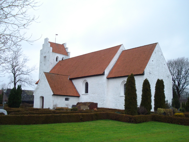 Torrild Kirke / Torrild Church, Jutland, Denmark